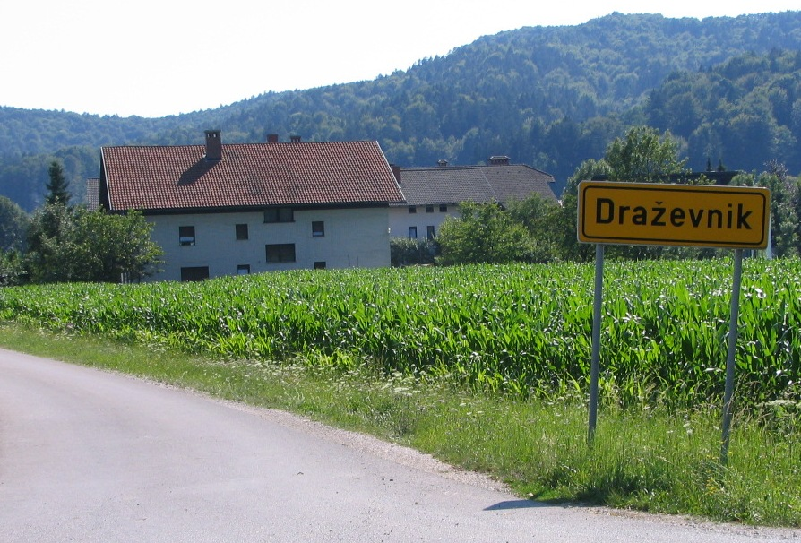 Village of Draževnik, Upper Carniola, Slovenia